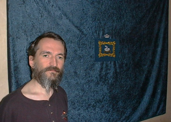 Timur Novikov, russian painter and art theorist, in his atelier in St. Petersburg, appearing in front of a brocade wall carpet, referring the style of an icon in the orthodox tradition.